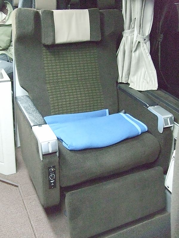 The Premium Seat of Nishitetsu highway bus“Hakata-go”